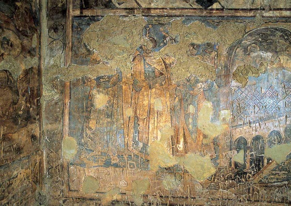 A photo of Painting of the Six Kings